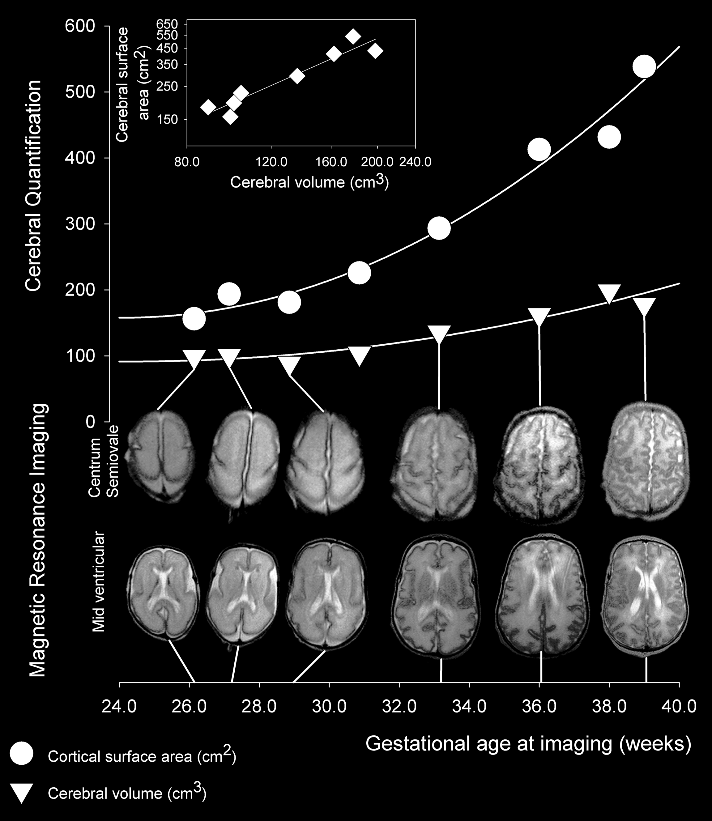 The images show slices through the brain at the mid-ventricular level and at the level of the centrum semiovale from six of the eight MR images obtained between 26 and 39 week gestational age; images obtained at 30 and 38 weeks are omitted for graphical clarity. Measured values for cerebral volume (triangles) and cortical surface area (circles) are related to relevant image pairs by straight lines. The insert displays a scatter plot in log-log coordinates of cortical surface area and cerebral volume (diamonds), showing a linear relationship that indicates power law scaling of cortical surface area relative to cerebral volume in this individual.